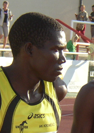 Athlete Jimmy Adar of Uganda before his start in men's 1500 m run at 17th edition of the Josef Odložil Memorial (EAA Premium Meeting, Na Julisce Stadium, Prague, Czech Republic, 14 June 2010). Adar did not finish the race.